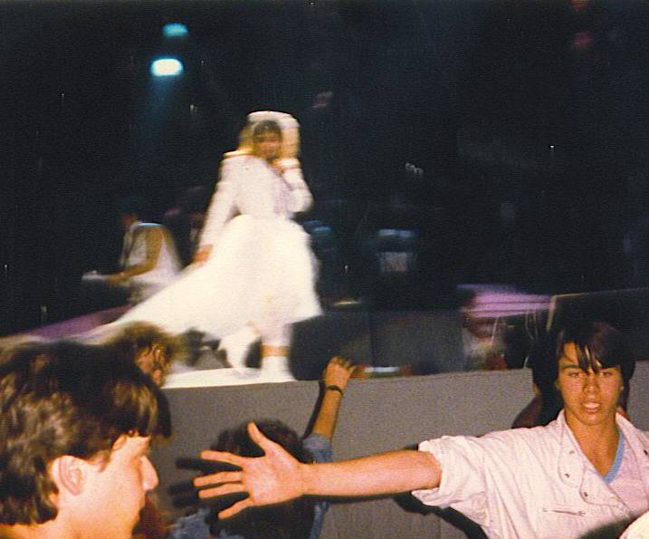 Picture taken by owner on 1985